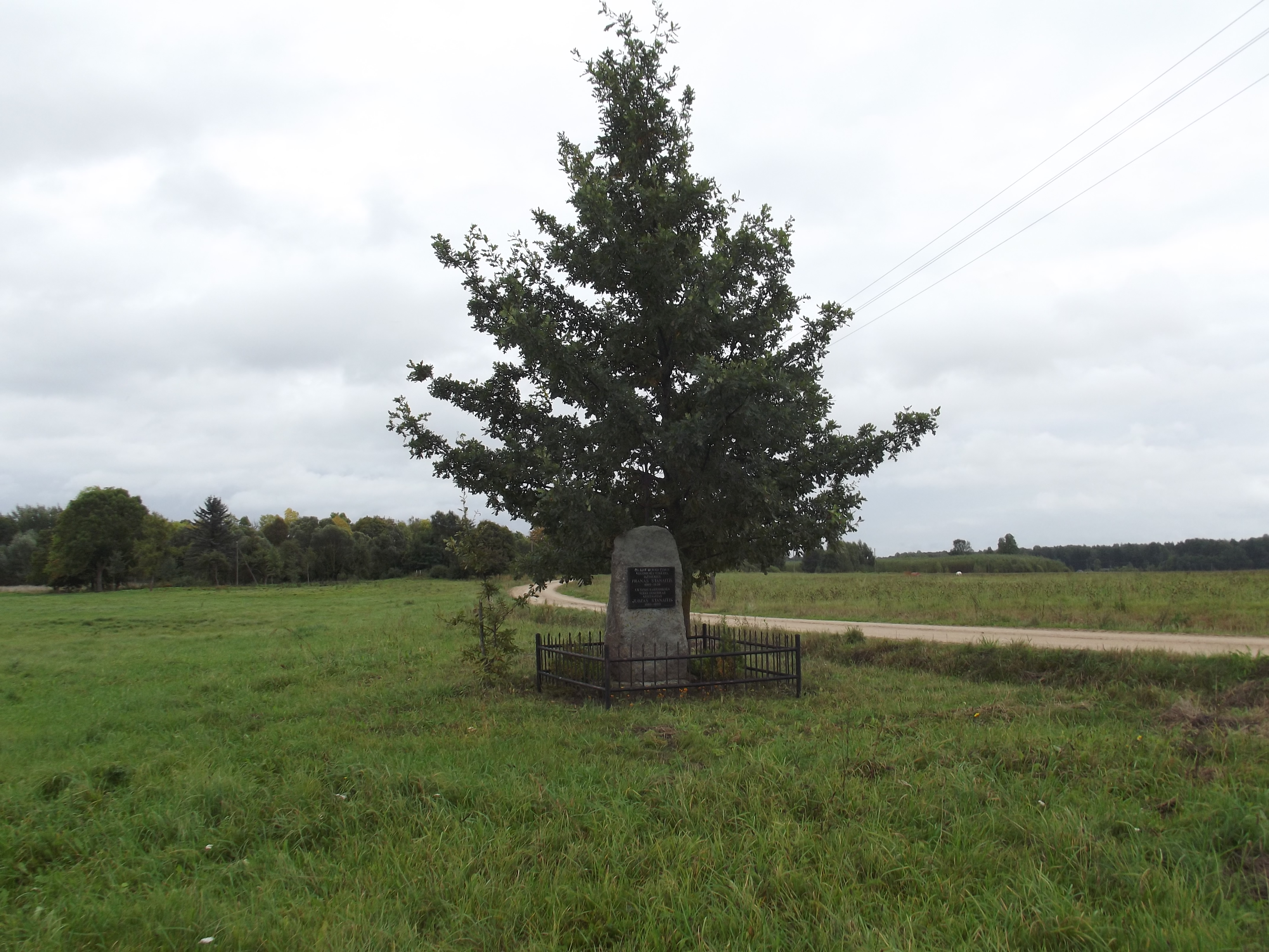 Monument in Slabadai, Vilkaviškis District, Lithuania